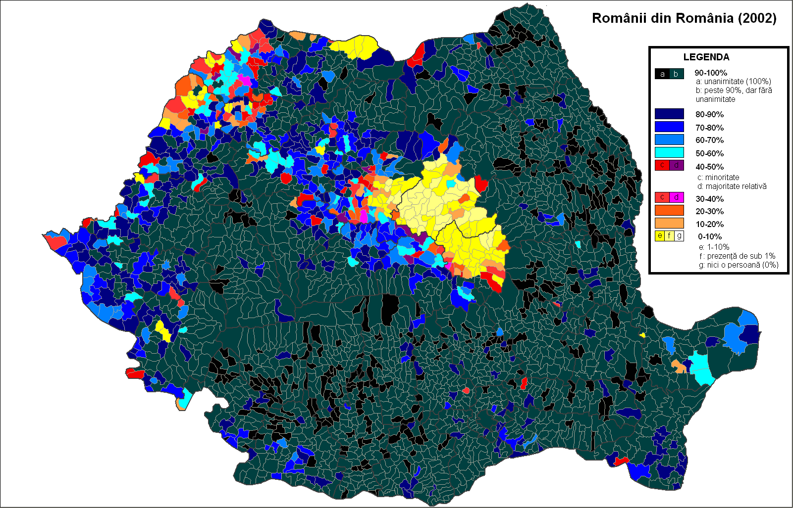 The distribution of the Romanians in Romania (census 2002)